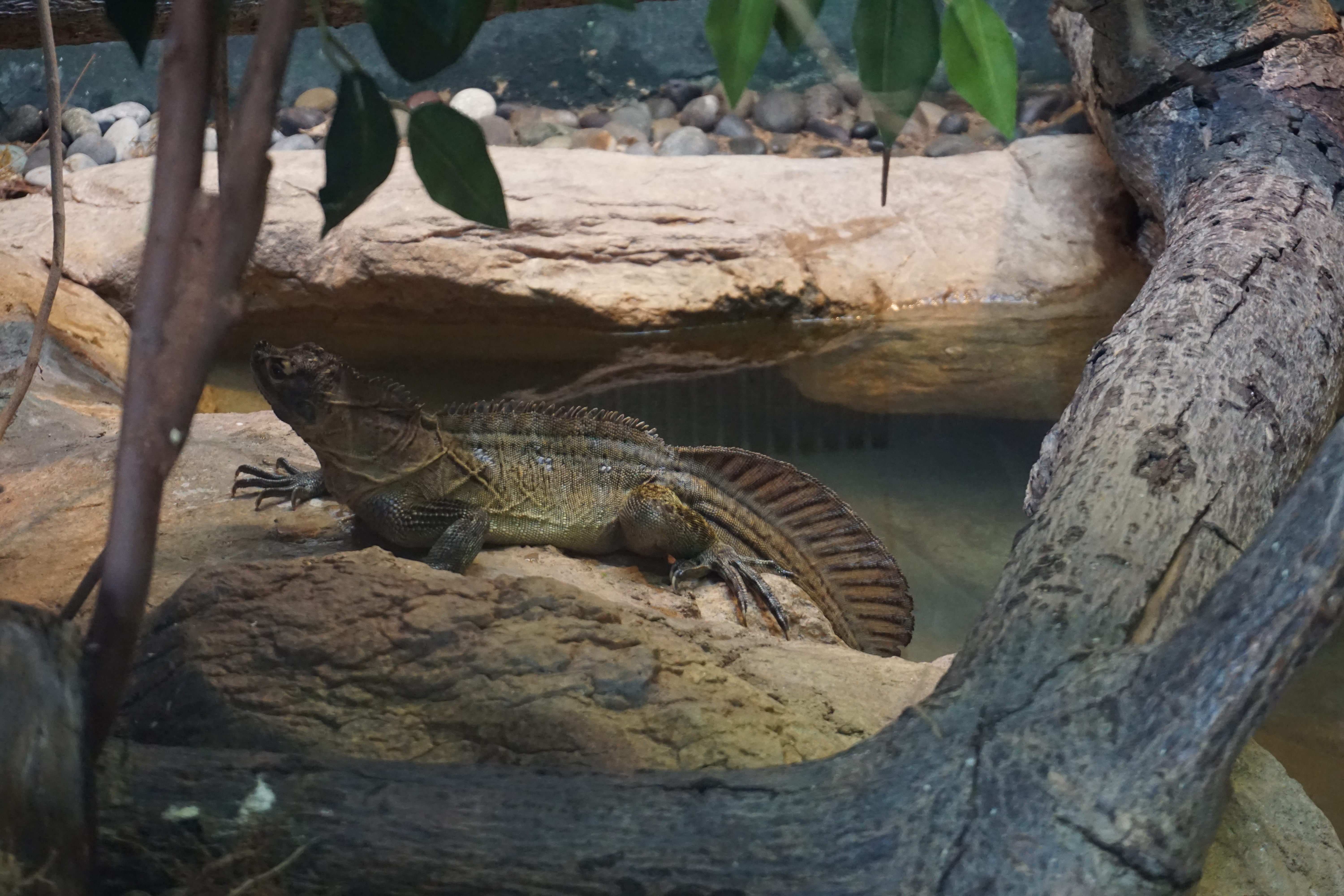 Philippine sailfin lizard in captivity at San Diego Zoo.